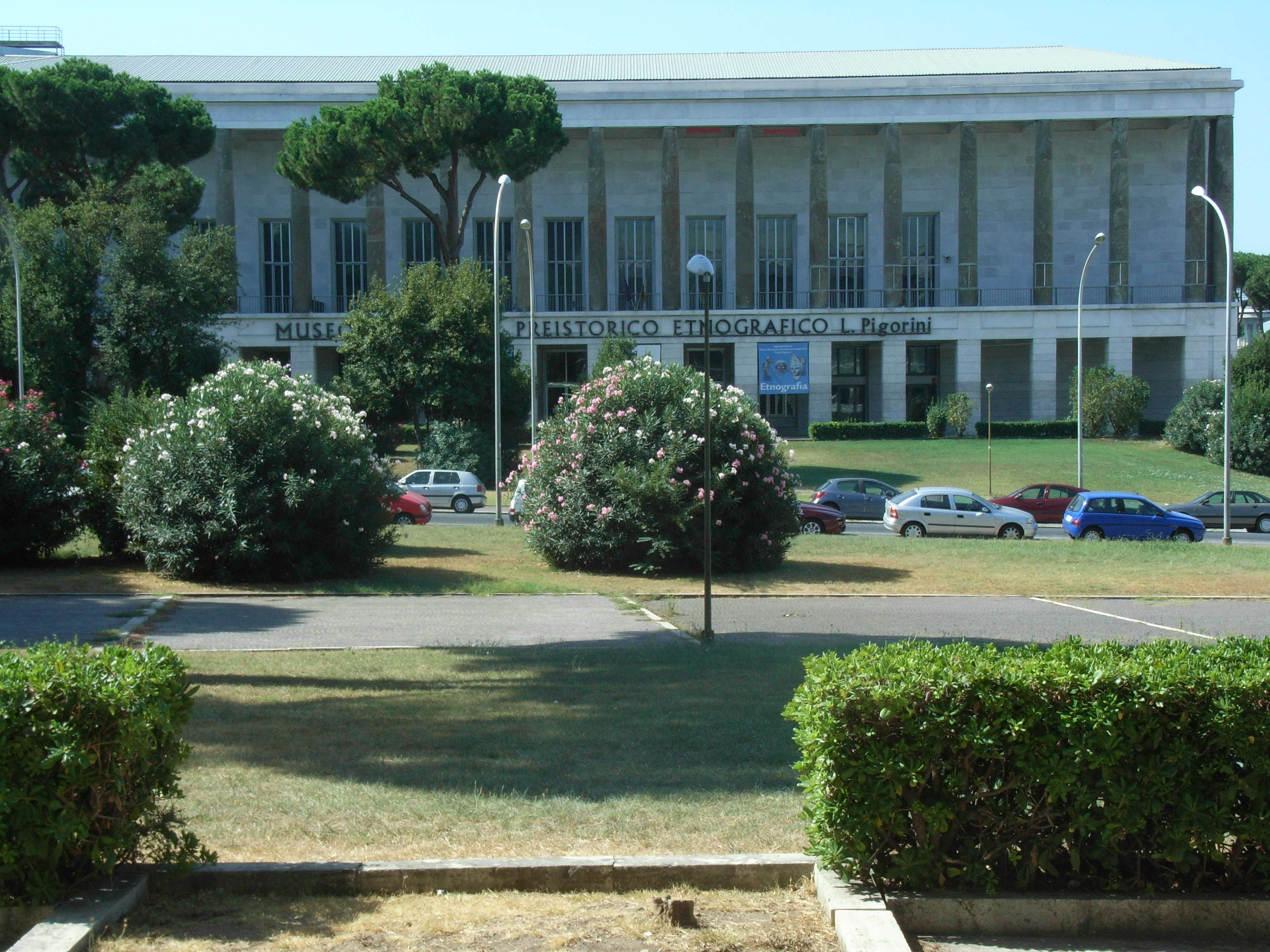 Ethnograhic Museum EUR Rome